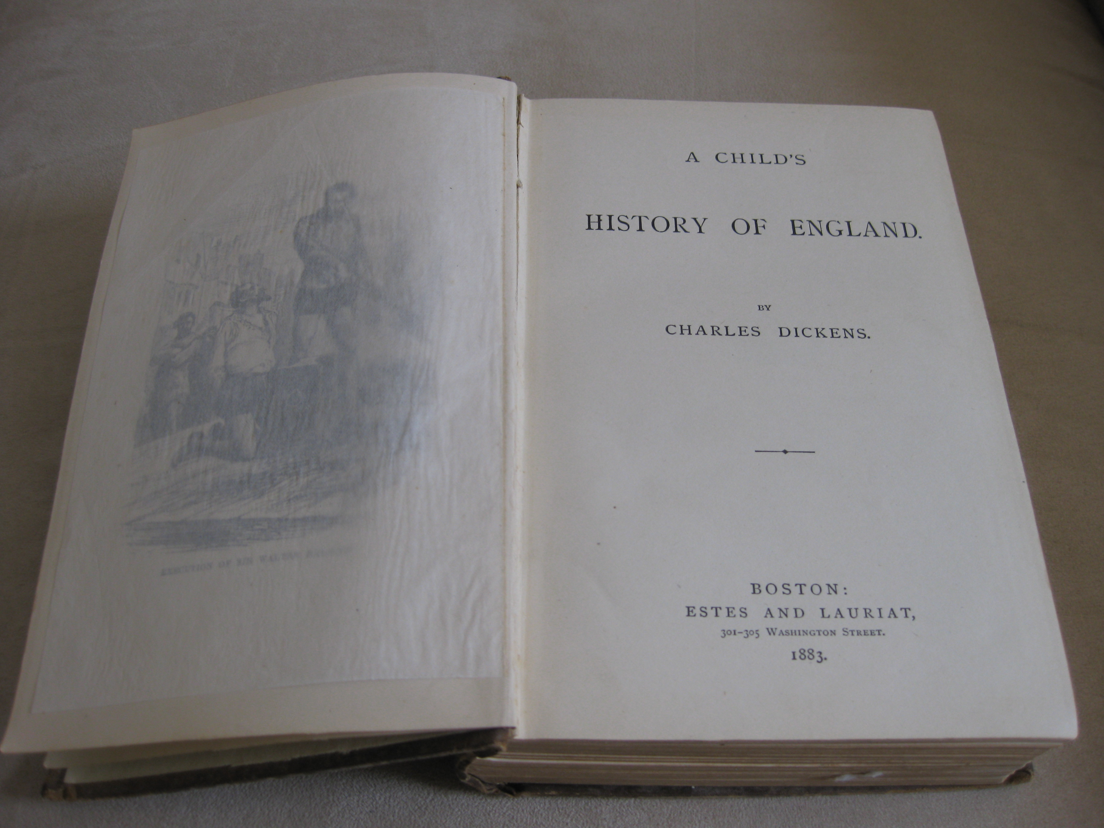 Title page of A Child's History of England by Charles Dickens, printed in 1883 in Boston.